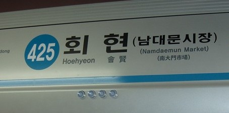 Hoehyeon Station